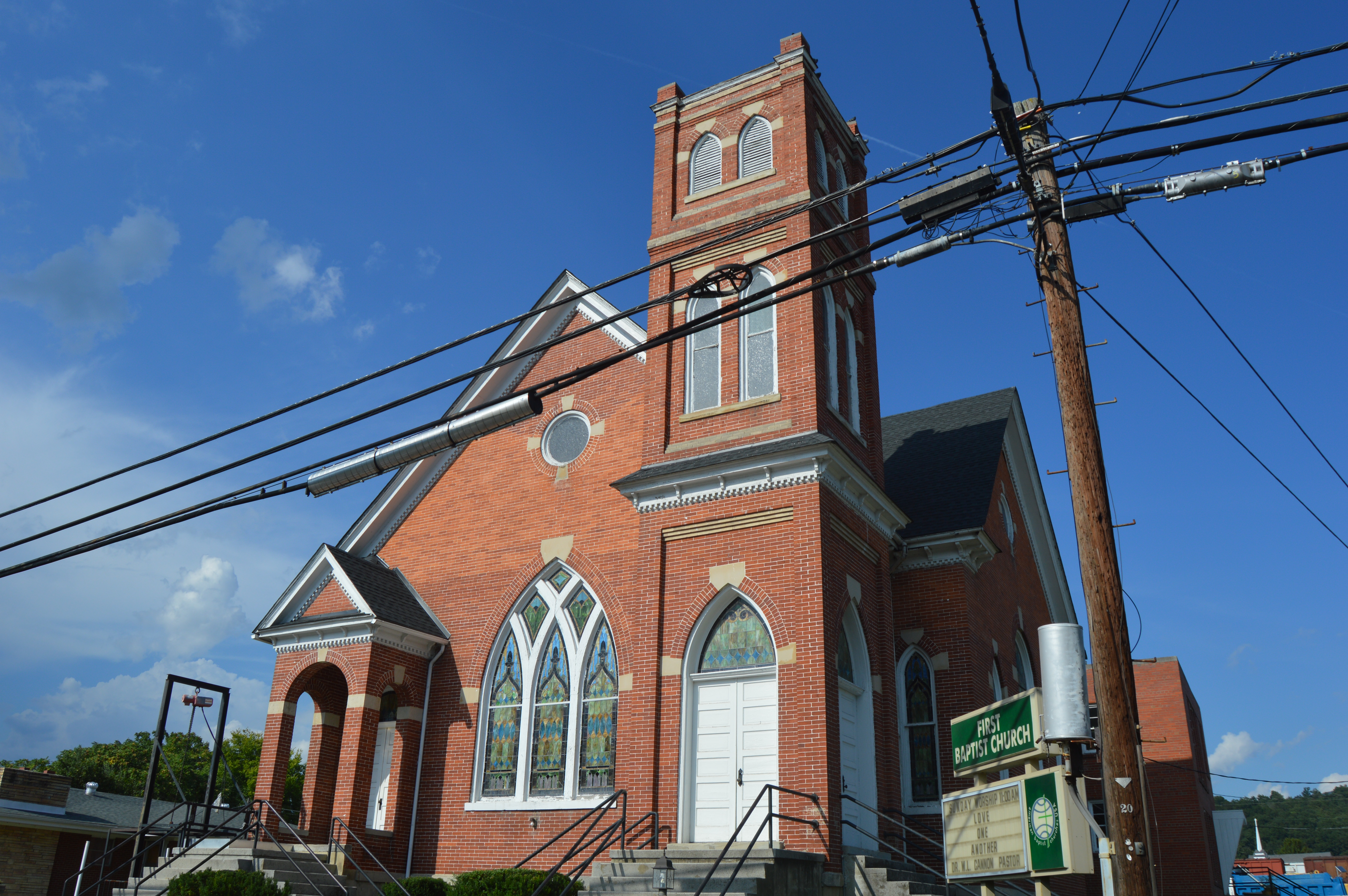 Front and southeastern side of First Baptist Church, located at 337 S. Lexington Avenue in Covington, Virginia, United States. Built in 1911, it is listed on the National Register of Historic Places.